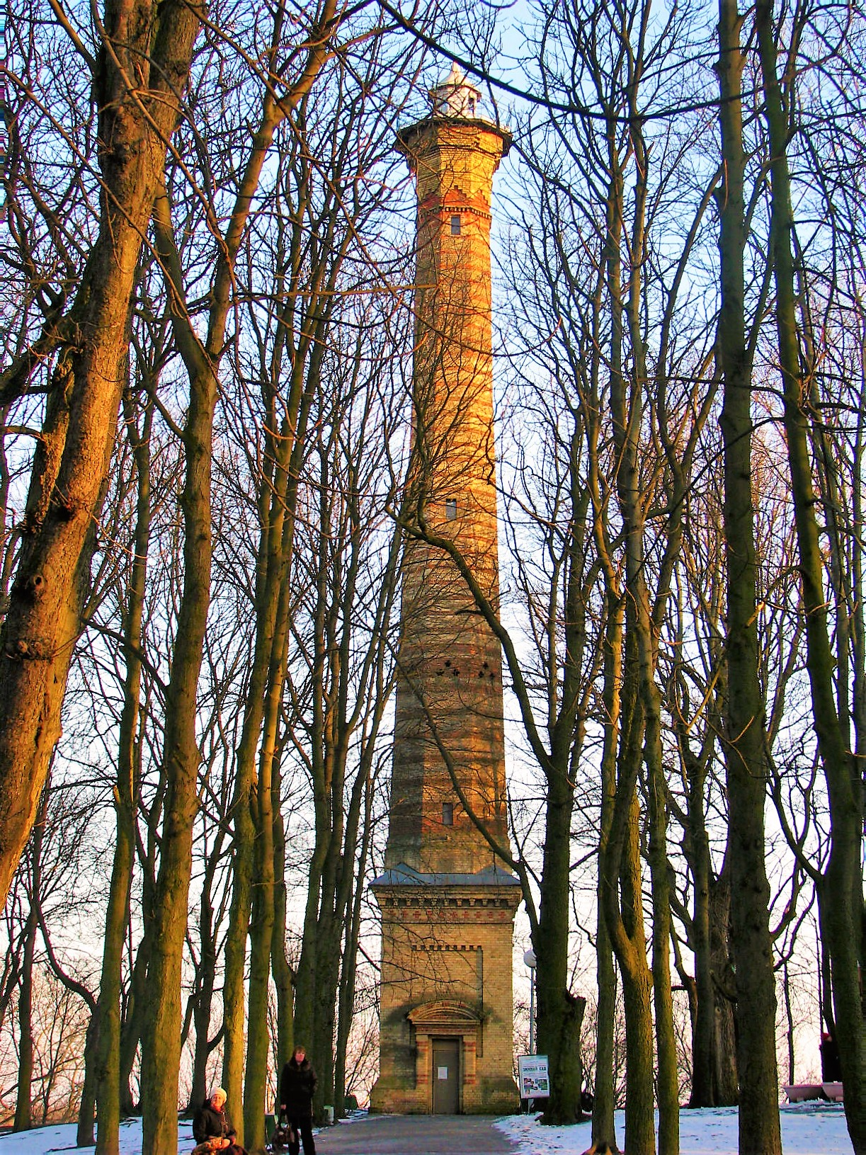 Pipe of former sugar refinery in Gomel Central Park now used as surveying tower